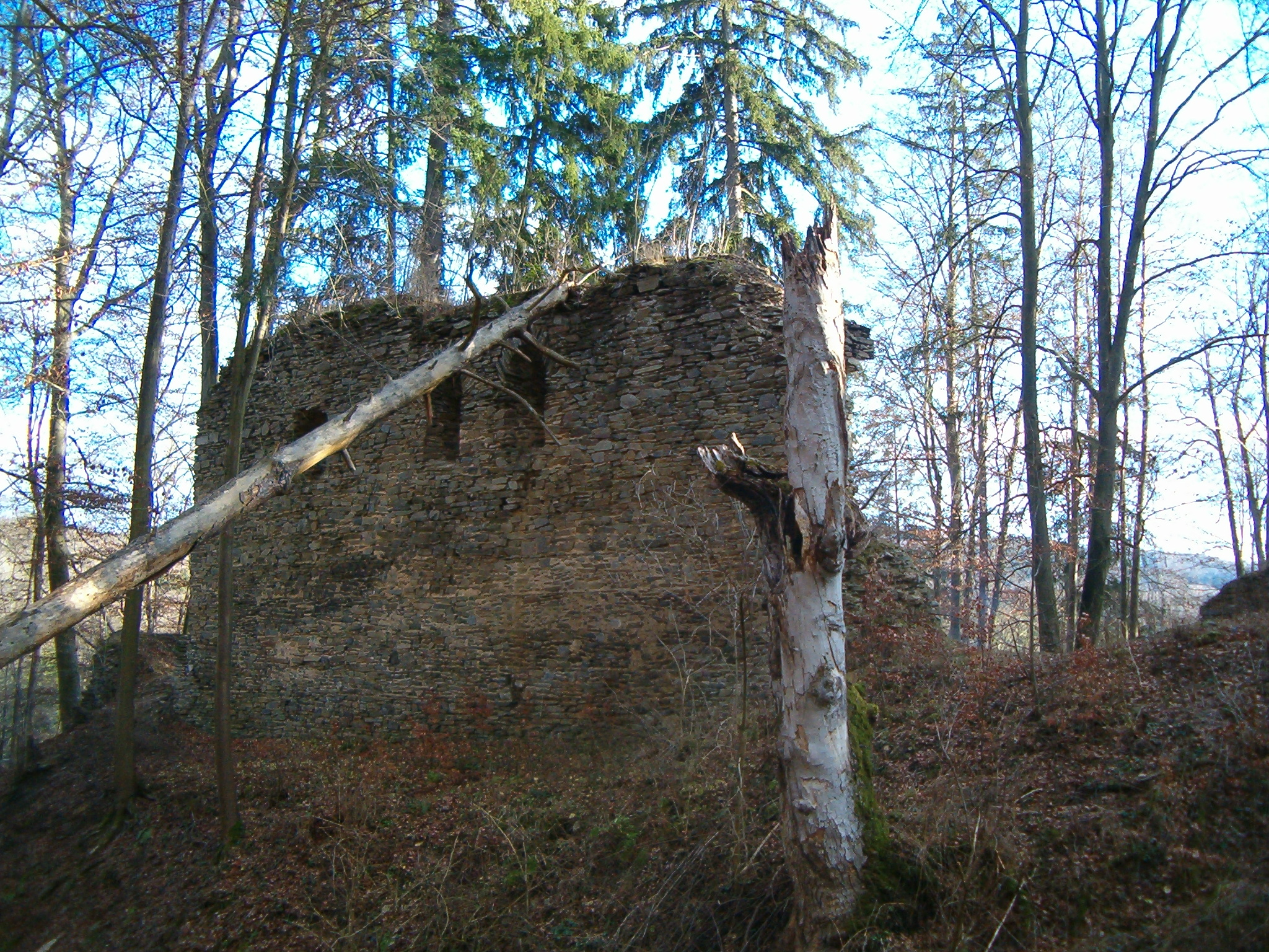 Karlův Hrádek near Hluboká nad Vltavou